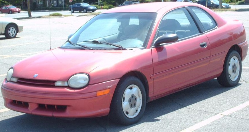 1996-1999 Dodge Neon photographed in Quebec, Canada.